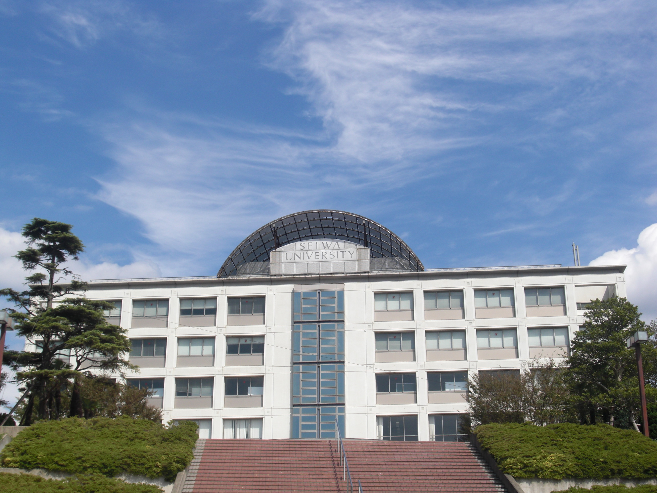 This is a university building in Kisarazu, Chiba, Japan.